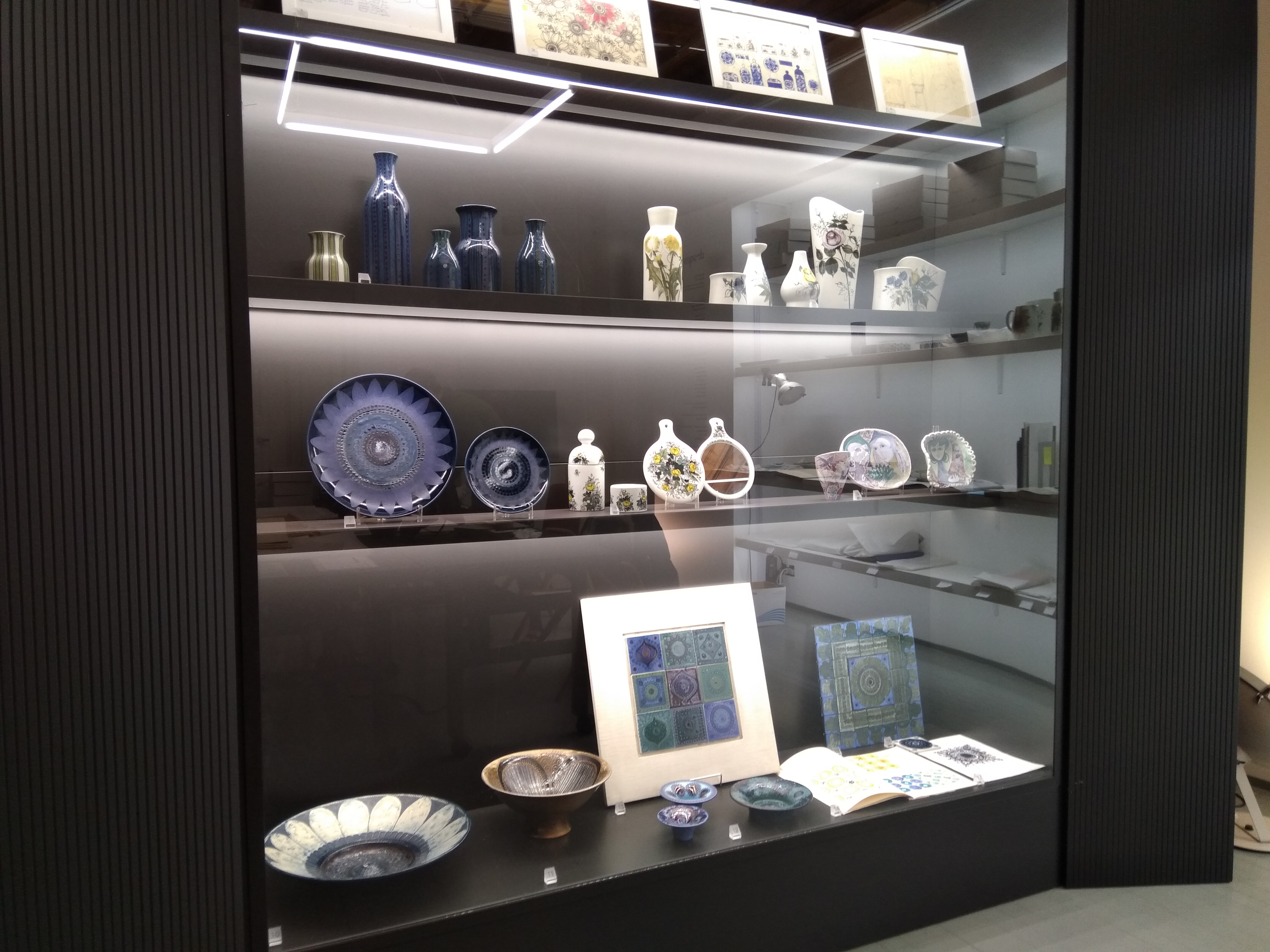 Exhibition of Hilkka-Liisa Ahola's works in Designmuseum in Helsinki, Finland, in February 2019.